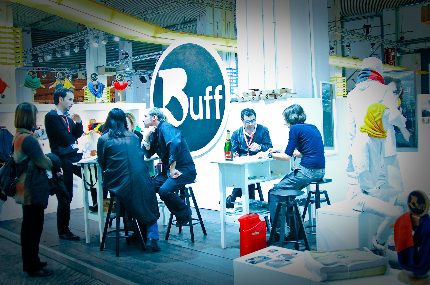 Buff brand at The Brandery Winter Edition 2010